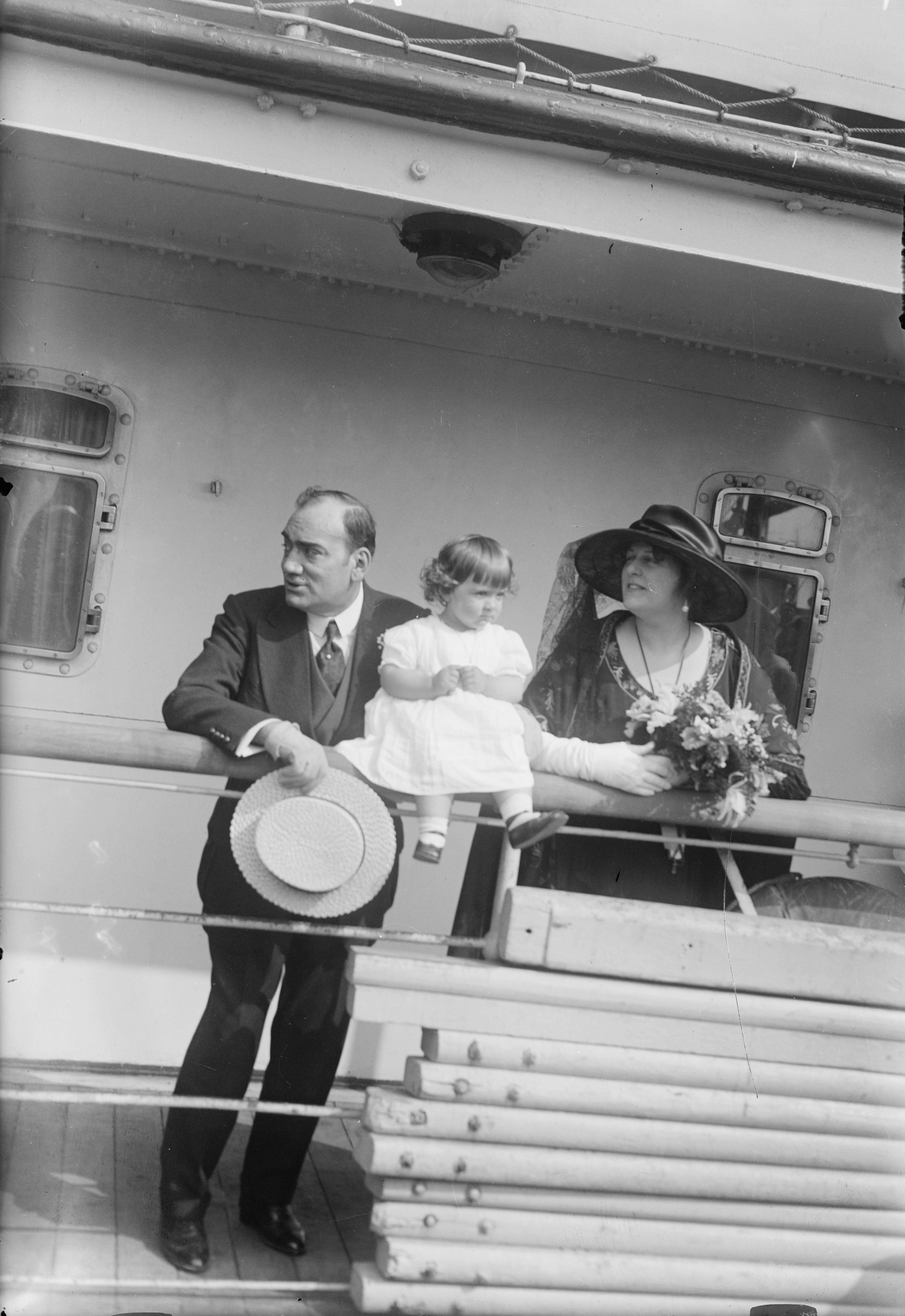 Caruso with wife and children